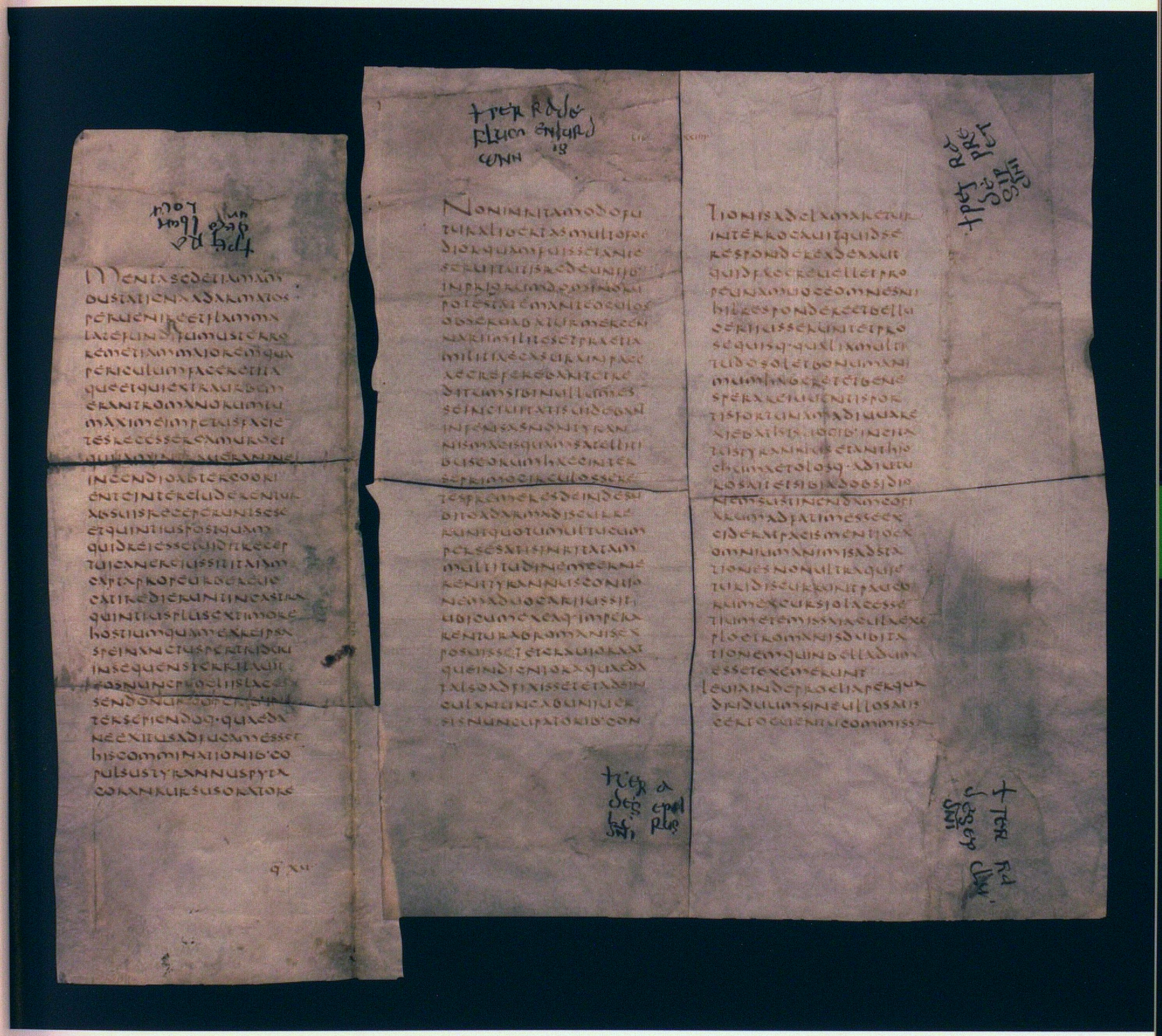 Fragments of an ancient manuscript of the Ab Urbe Condita Libri. Vatican City, Biblioteca Apostolica Vaticana, Vat. lat. 10696.